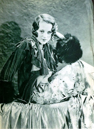 Sally Eilers